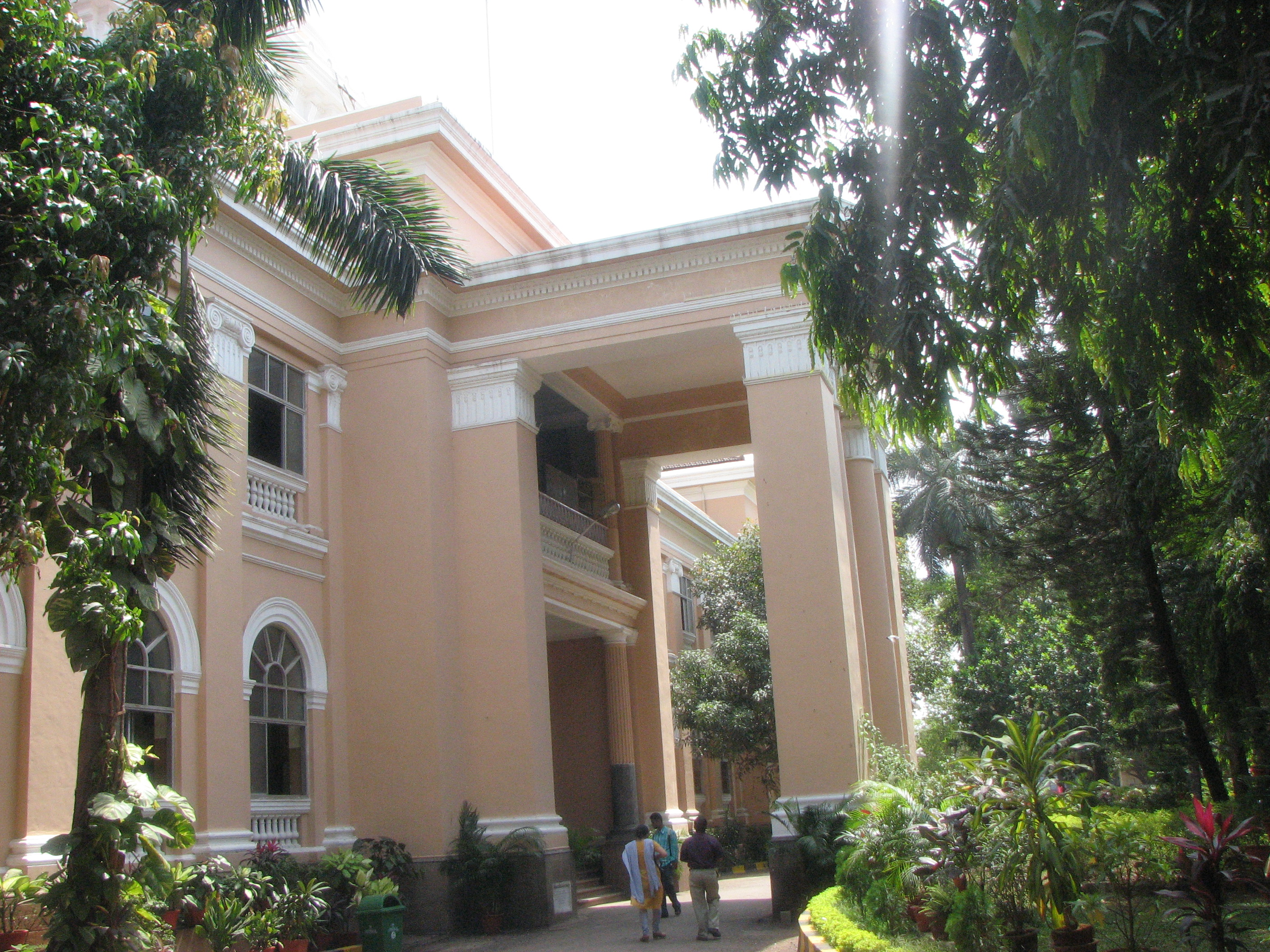 This is a photograph of the main entrance at VJTI